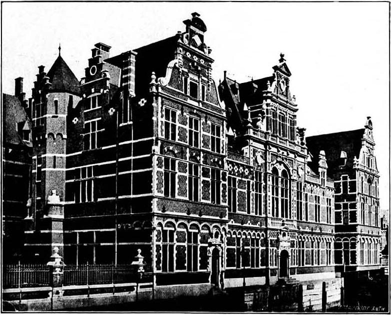 Leonard & Henri Blomme (architects). Boy's Orphanage, Antwerp.